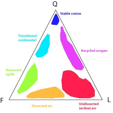 Schematic illustration showing the approximate locations of common sands and sandstones on QFL Diagrams using the Gazzi-Dickinson Method to determine composition of framework grains.